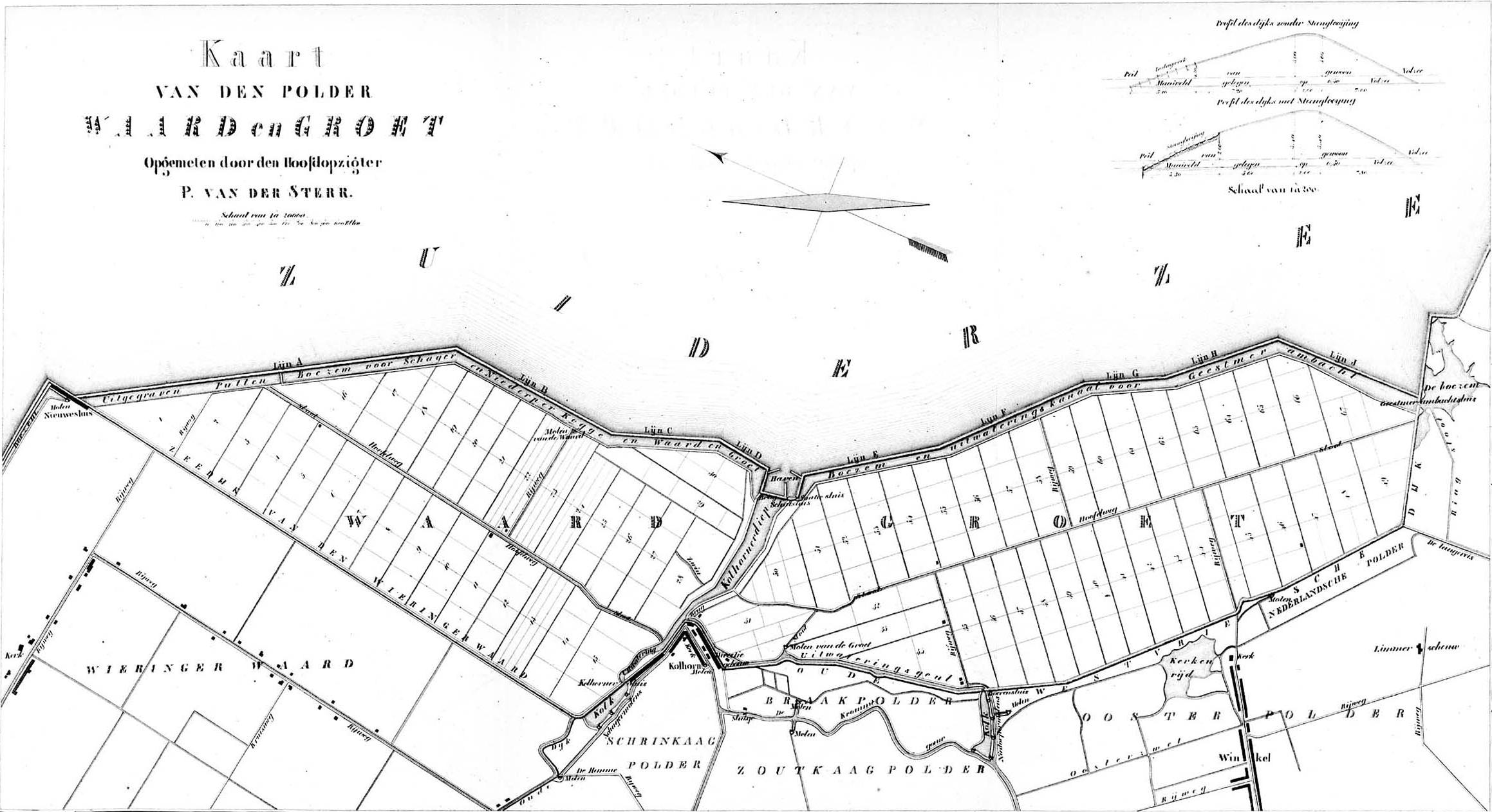 Map of the Waard- and Groetpolder.